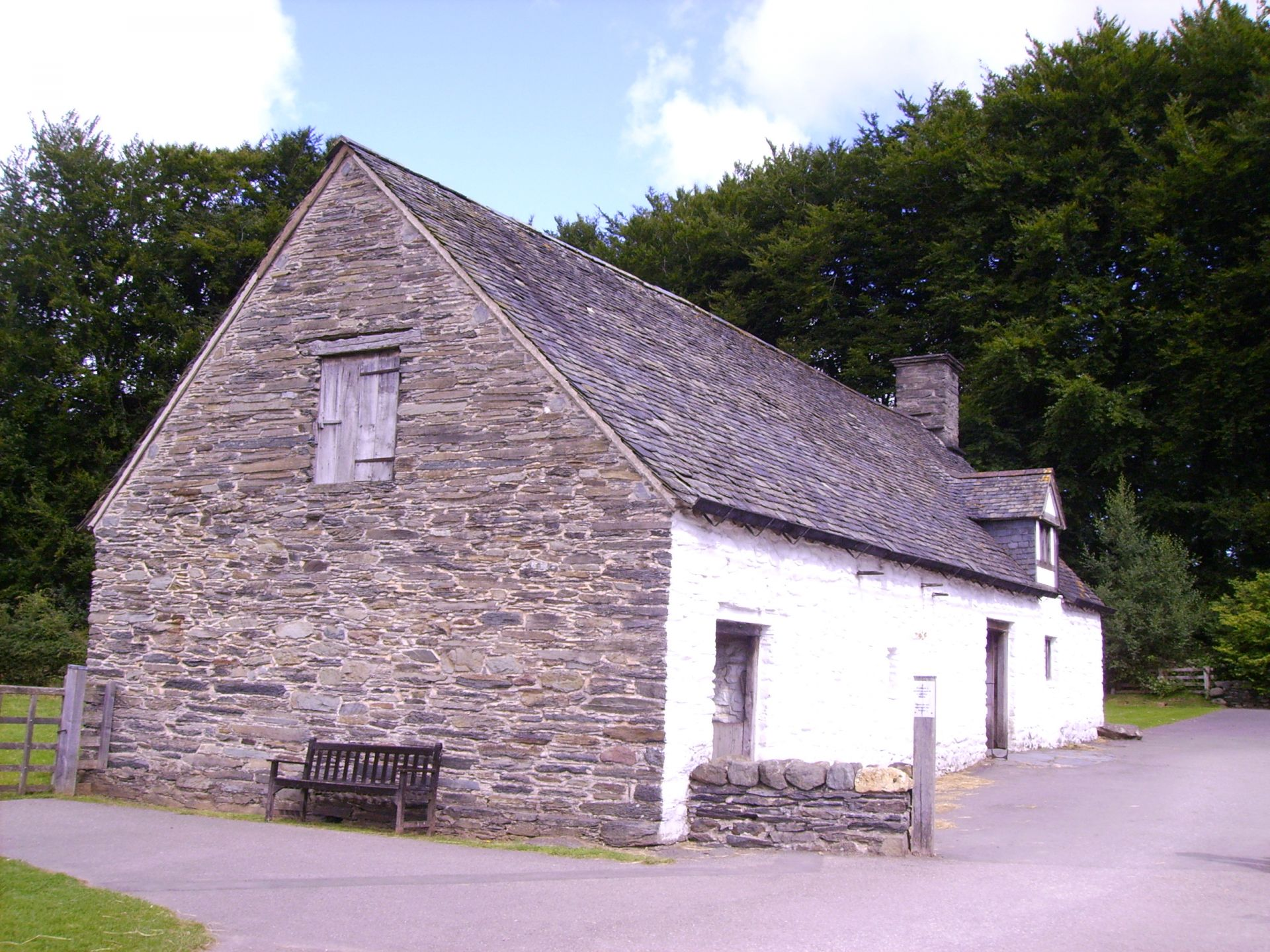 Welsh Longhouse, St Fagans